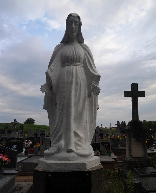 Cemetery in Brdów. Monument of Our Lady.